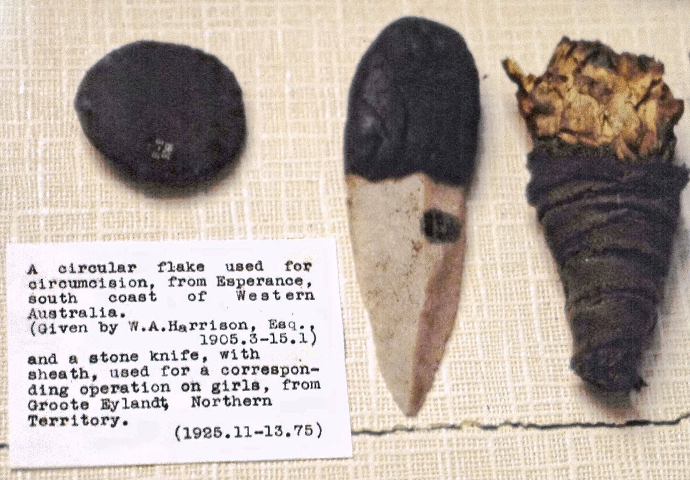 Photo taken at the British Museum, London, June 1970